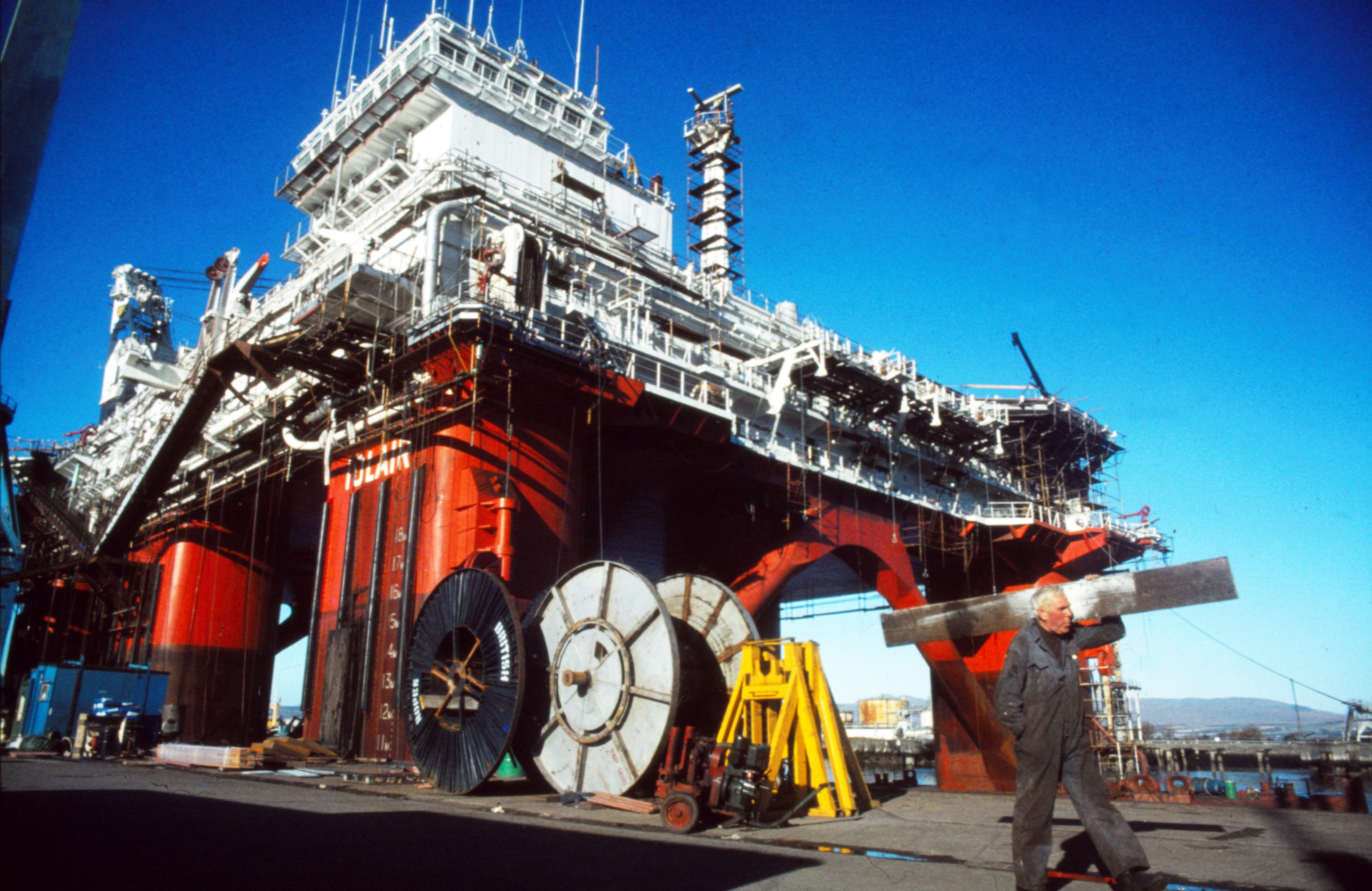 Iolair semi-submersible offshore platform under construction at Scott Lithgow shipbuilders, in Port Glasgow and Greenock. In fitting out basin, so estimated date 1982 – scan from slide.